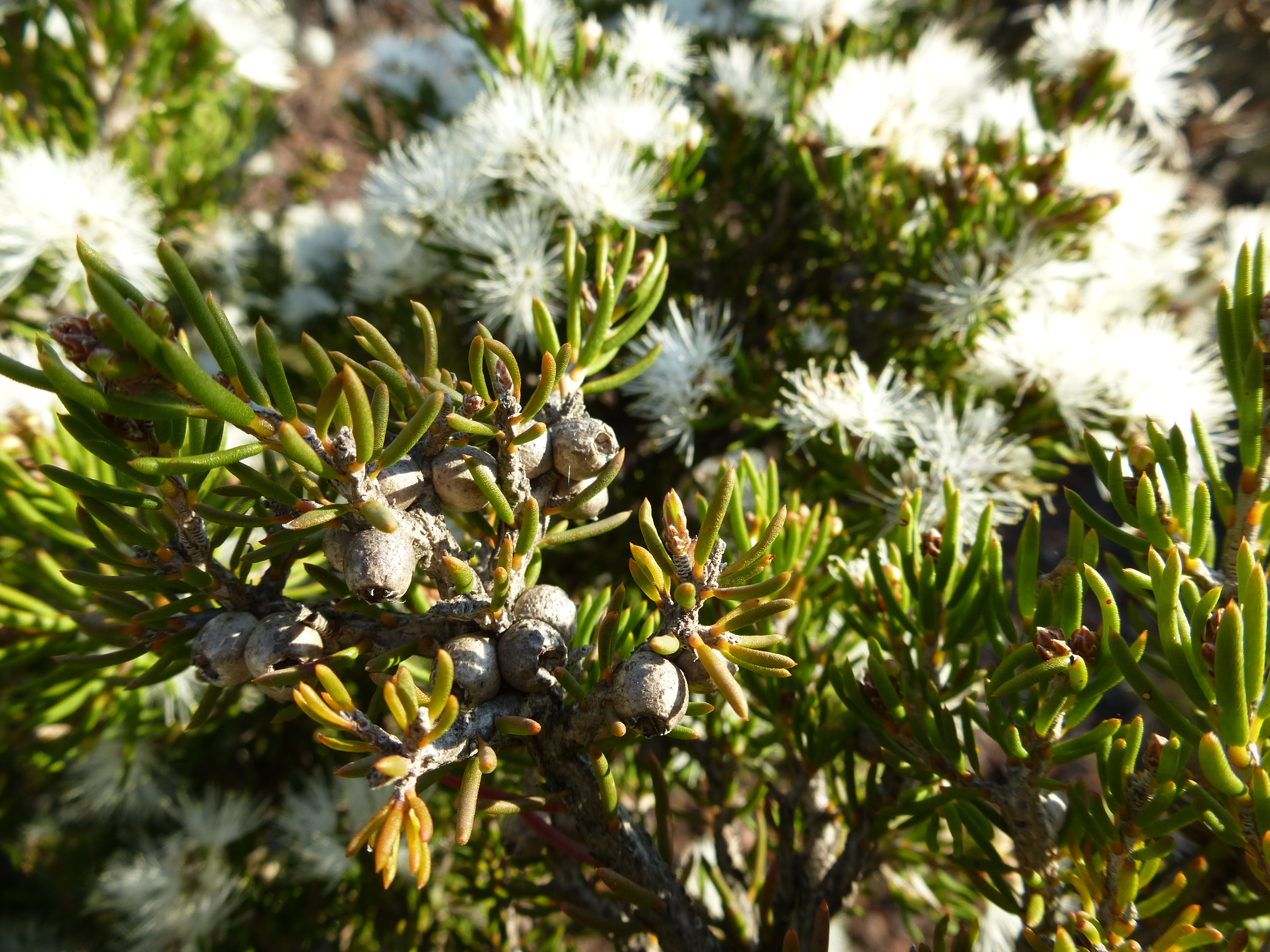 Melaleuca teuthioides growing 10 km east of Ravensthorpe